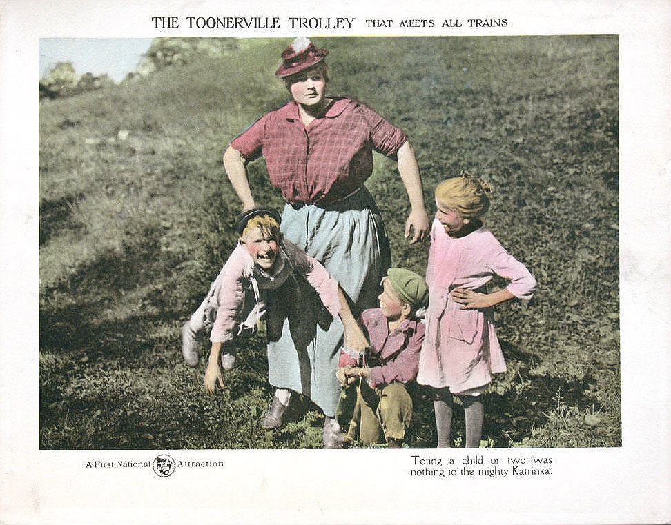 Lobby card for the 1920 film The Toonerville Trolley. The film was based on Fontaine Fox's popular comic strip Toonerville Folks. Actress Wilna Hervey is pictured as the Powerful Katrinka, one of the comic strip's characters.